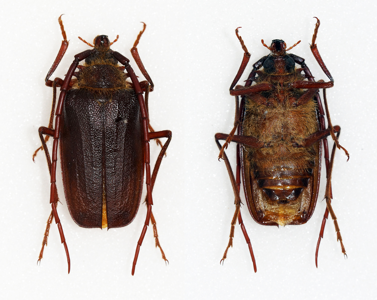 Blanchard,1851 Sex: Male Data: 25-12-14 - San Alfonso 2500m - Chile Size: 28mm